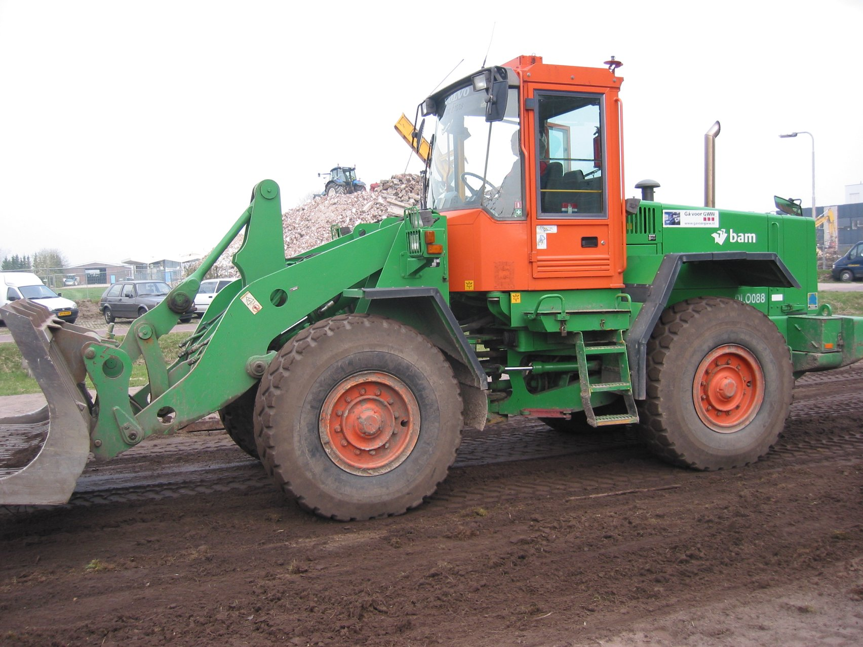 Loader with pivot steering